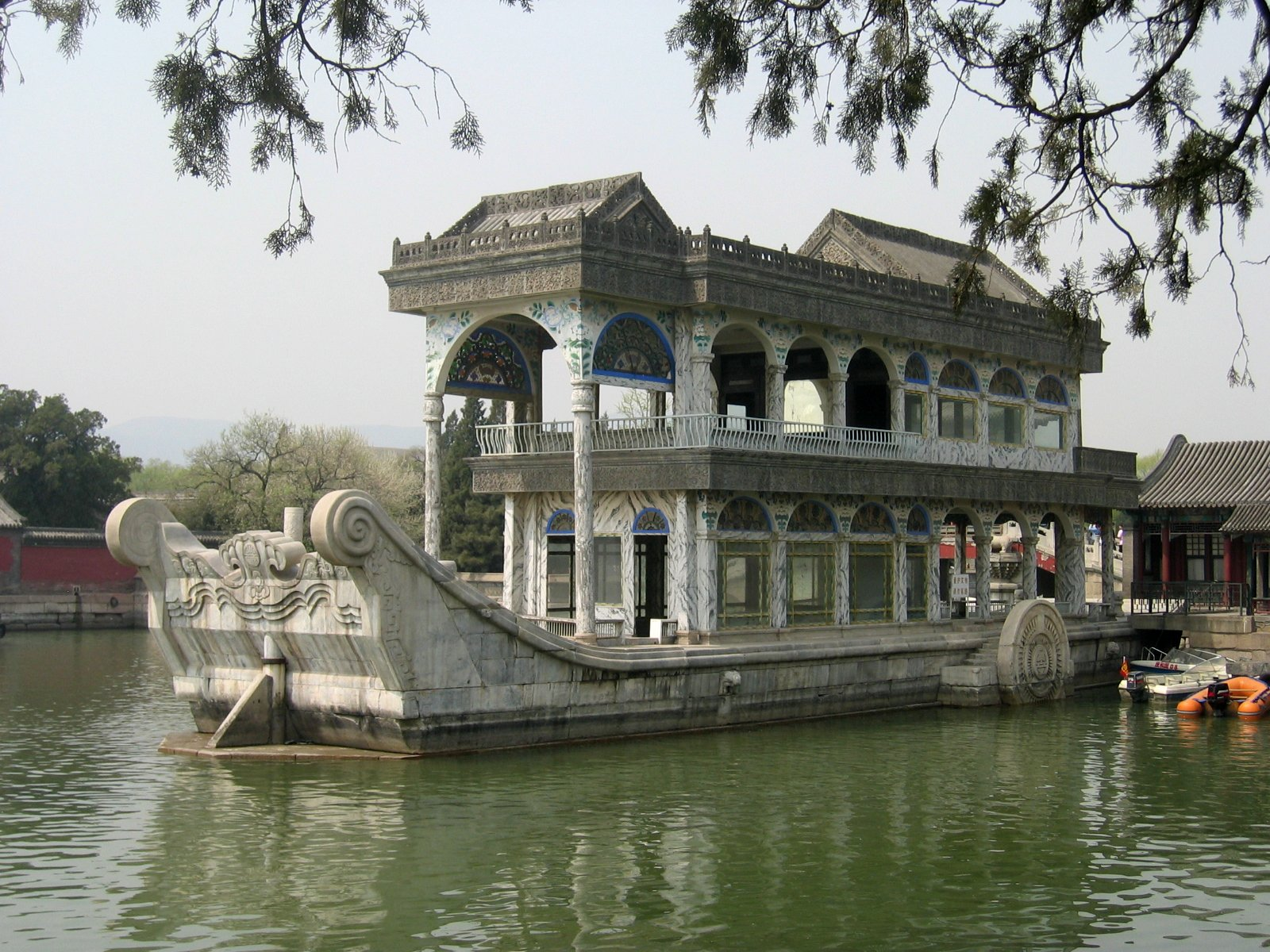 Photograph of the Marble Boat Pavilion on the grounds of the Summer Palace in Beijing, China. Photograph taken on April 17, 2005 by Rolf Müller.